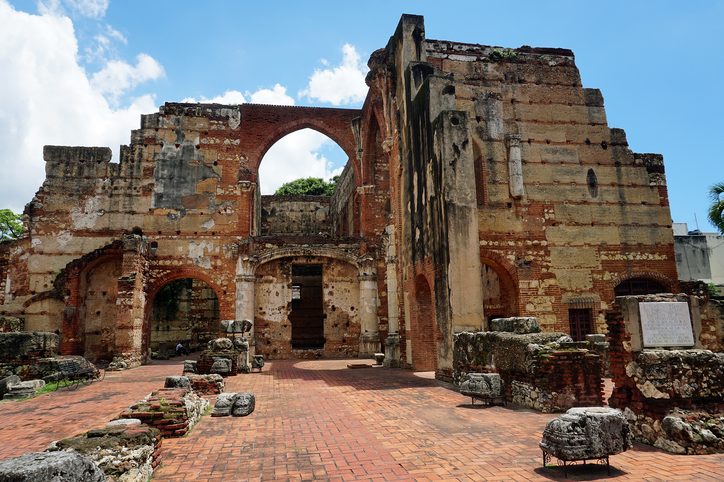 Ruinas del Hospital San Nicolás de Bari, Ciudad Colonial Santo Domingo